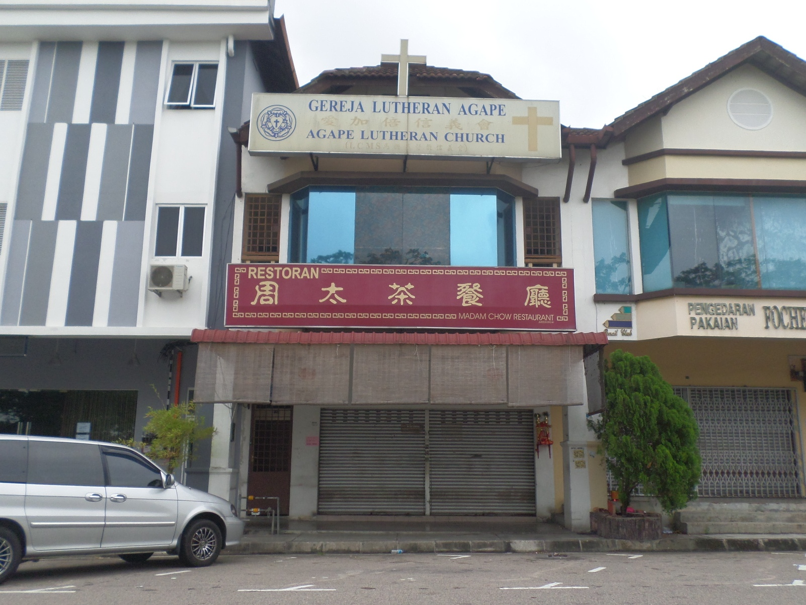 Agape Lutheran Church, Skudai, Iskandar Puteri, Johor Bahru, Johor, Malaysia